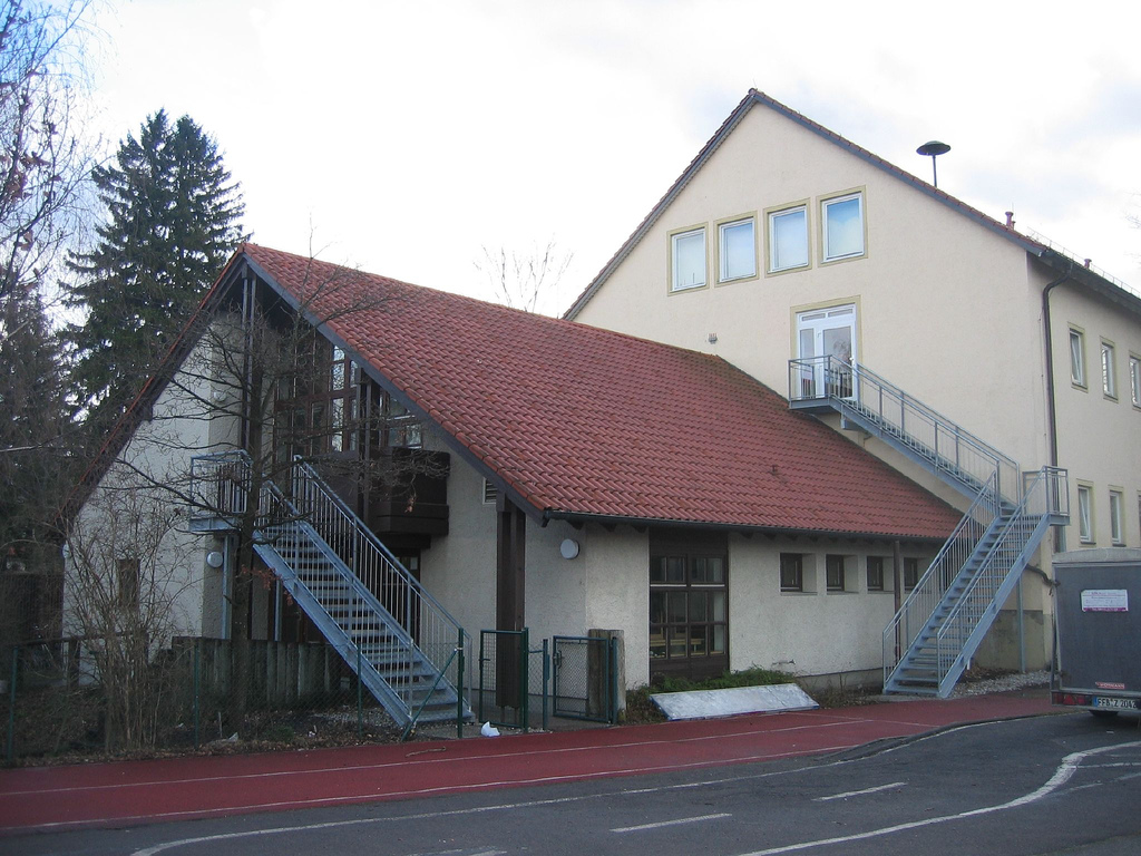 youth center for Eichenau/Germany